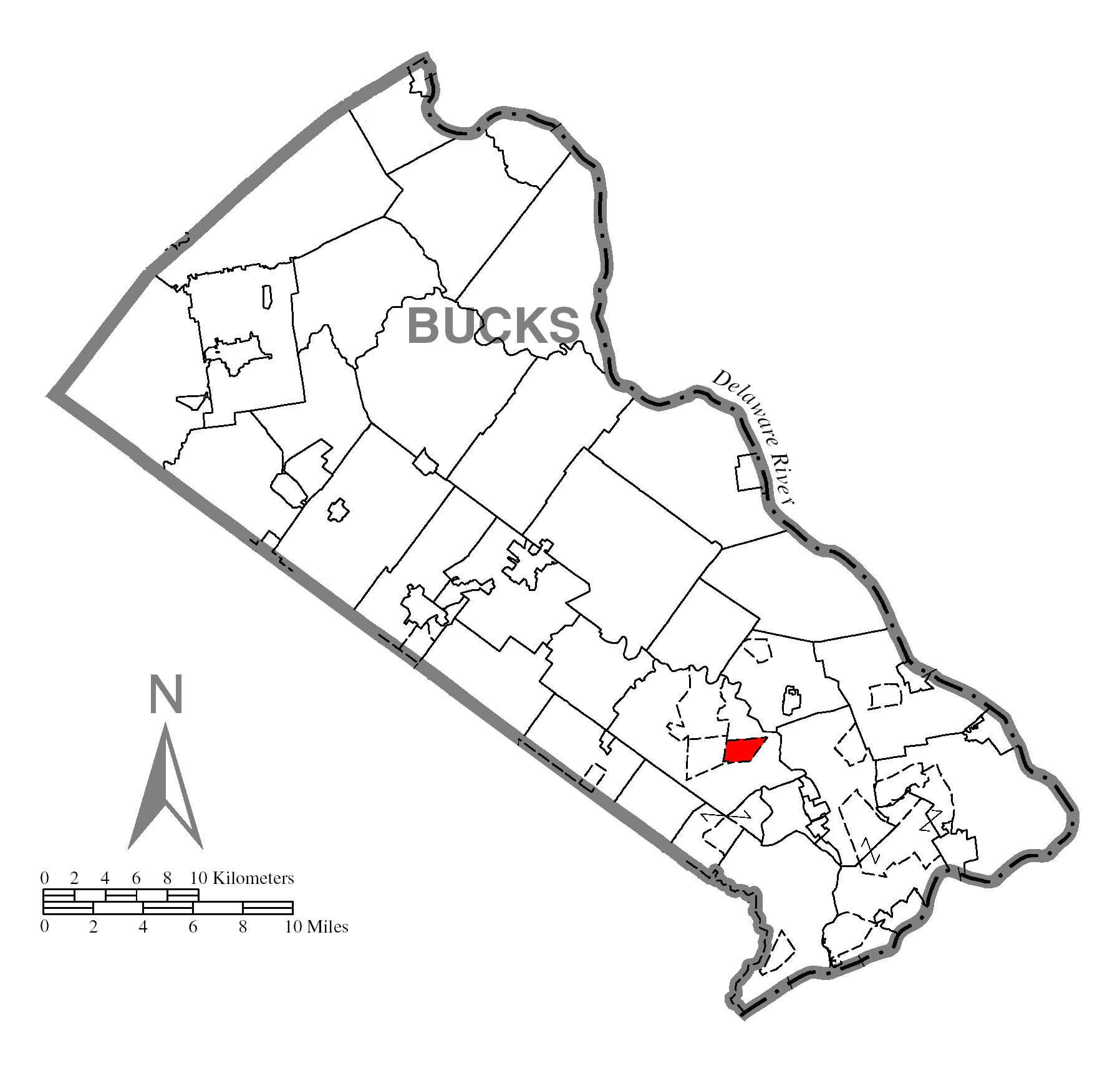 A map of Bucks County showing Village Shires, Pennsylvania (alternate) highlighted on the map.